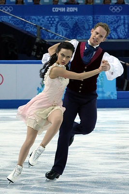 Madison Chock and Evan Bates at the 2014 Winter Olympics